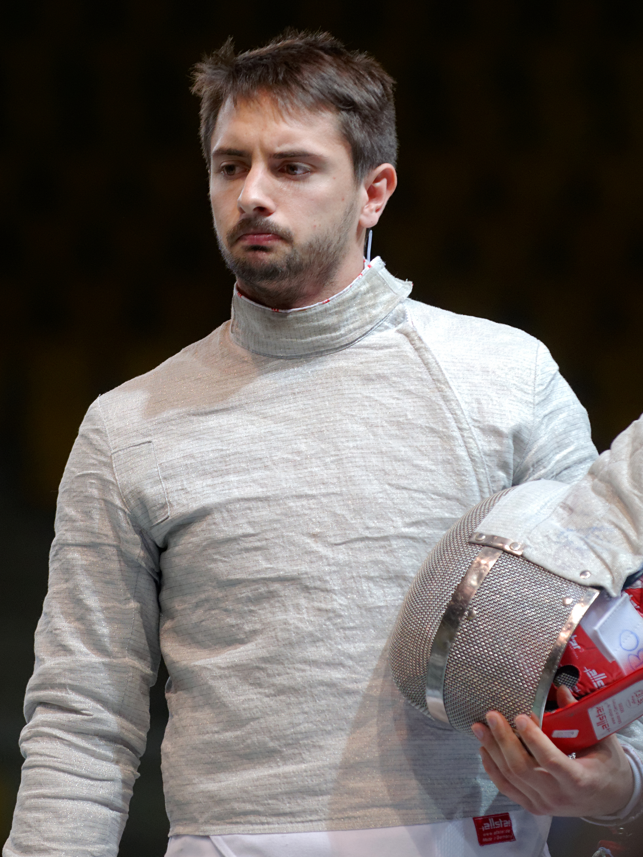 Germany's Matyas Szabo during the men's sabre team event of the European Fencing Championships at Rhénus Sport in Strasbourg on 14 June 2014.